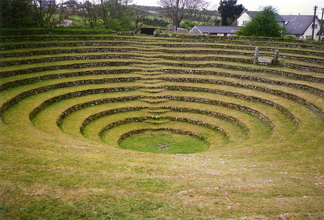 Redruth: Gwennap Pit, Busveal. John Wesley preached here, in a hollow amidst old mine workings. The terraces were constructed following his death